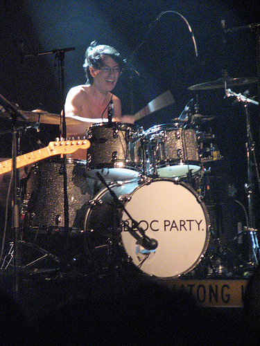 Matt Tong performing with Bloc Party at Sydney Entertainment Center, 26th November 2008.